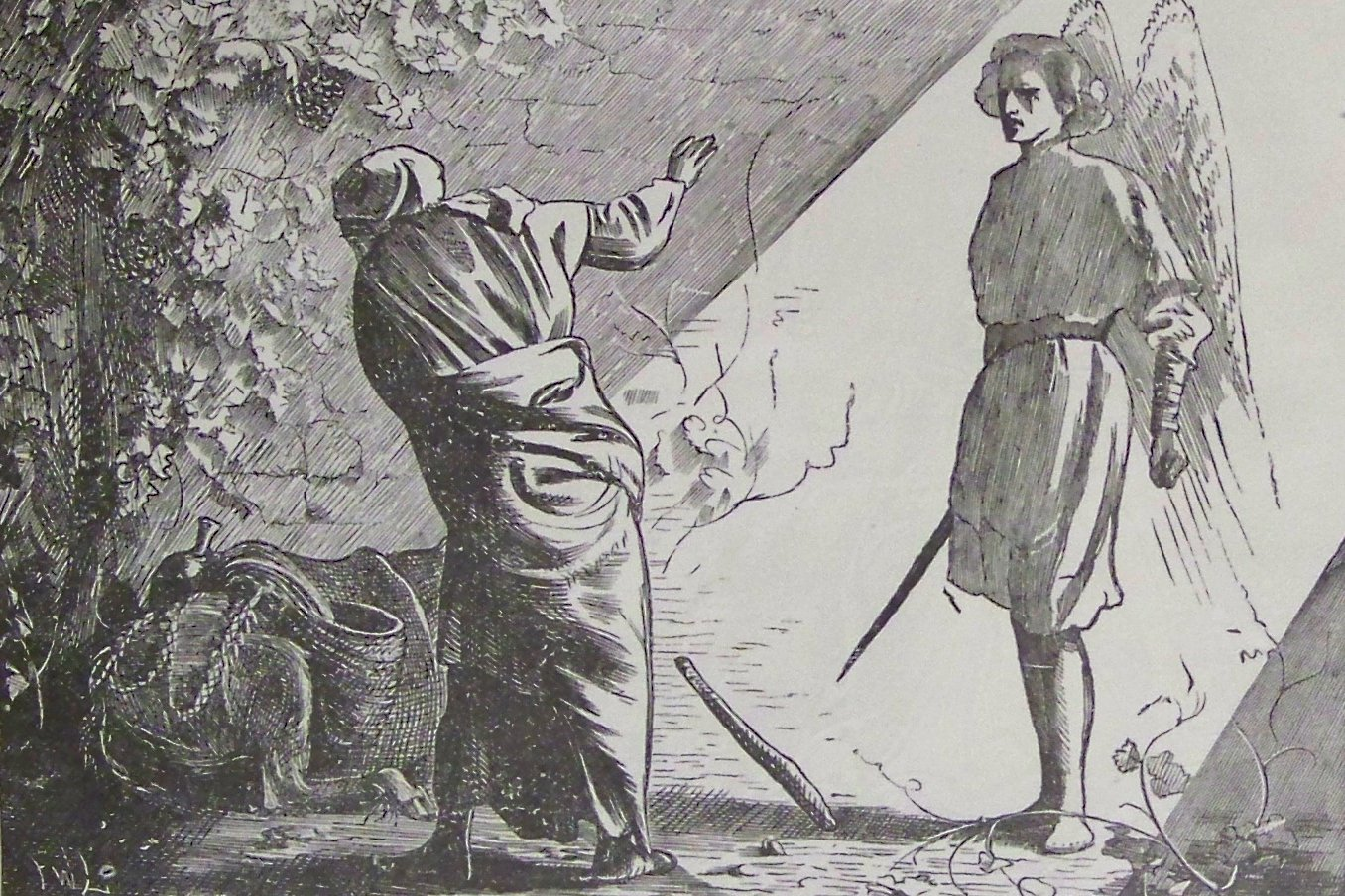 Balaam and the Angel, as in Numbers 22:21-25, illustration from the 1890 Holman Bible